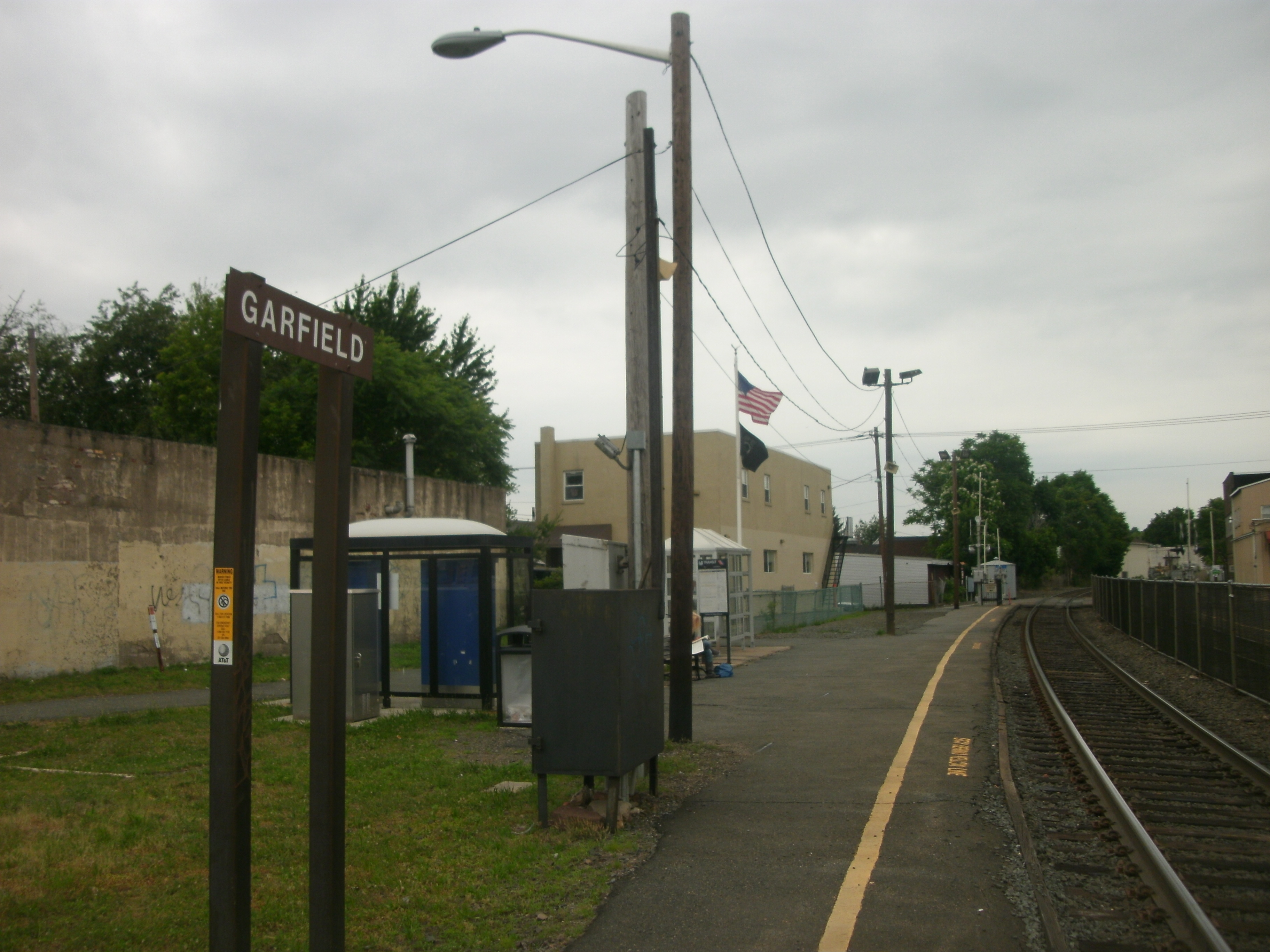 Garfield Station in Garfield, New Jersey on NJ Transit's Bergen County Line facing northward towards Plauderville.